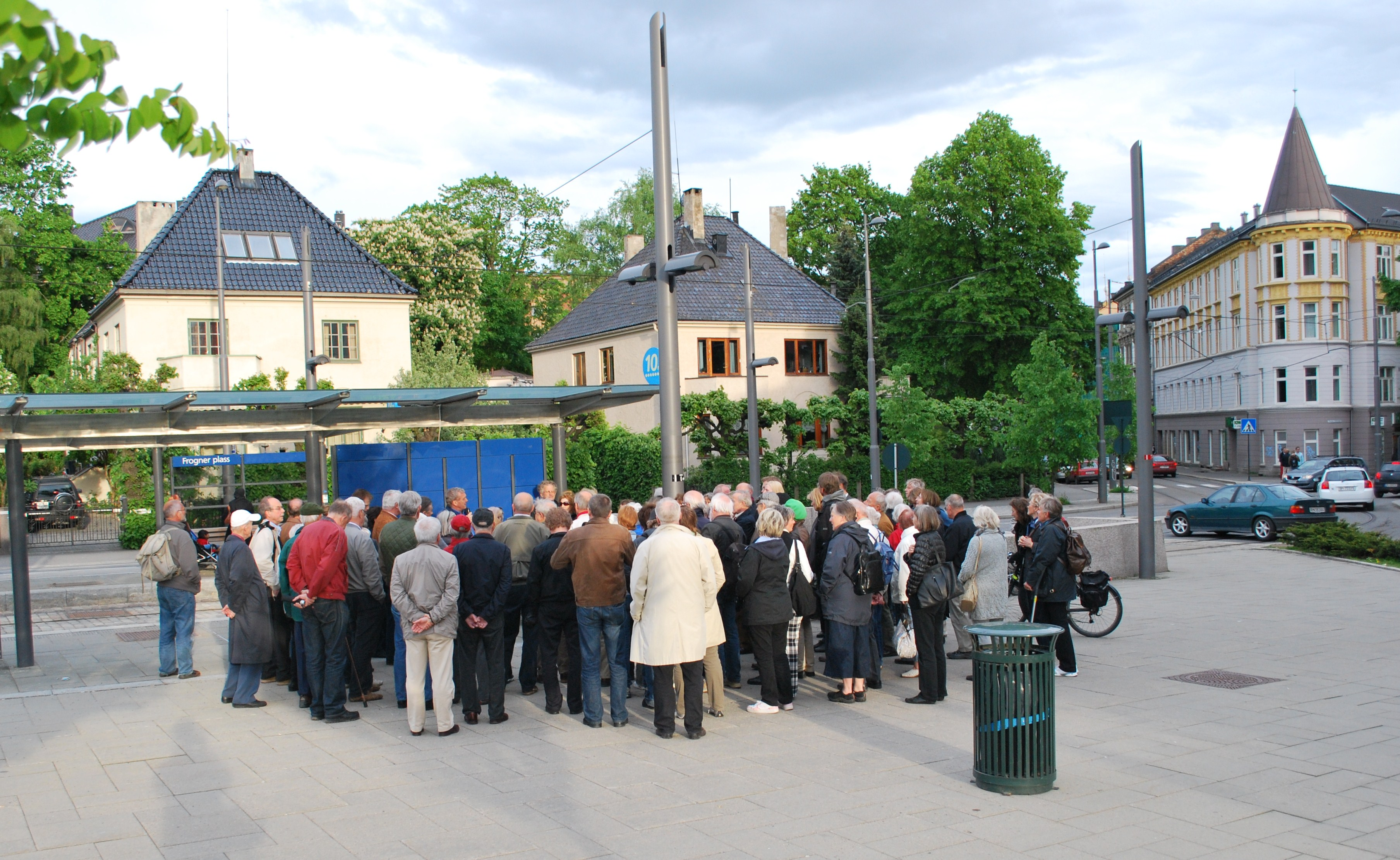 City walk with Lars Roede, Oslo Byes Vel, picture taken at Frogner plass, Frogner neighborhood, Oslo.